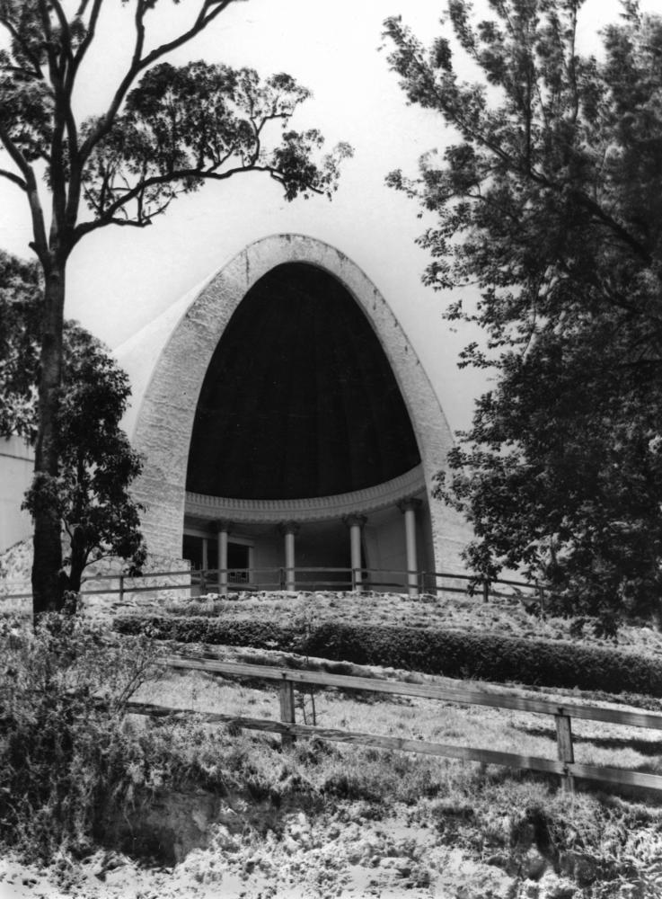 Entrance to the Cloudland Ballroom, Bowen Hills, Brisbane, 1946 Front entrance of the Cloudland Ballroom in Bowen Hills. It was constructed in 1939-1940 as 'Luna Park' and opened on the 2 August, 1940. In 1942 United States Forces took over the ballroom an an office and headquarters. It was reopened as a ballroom again on the 26 April, 1947. The building was demolished in 1982.